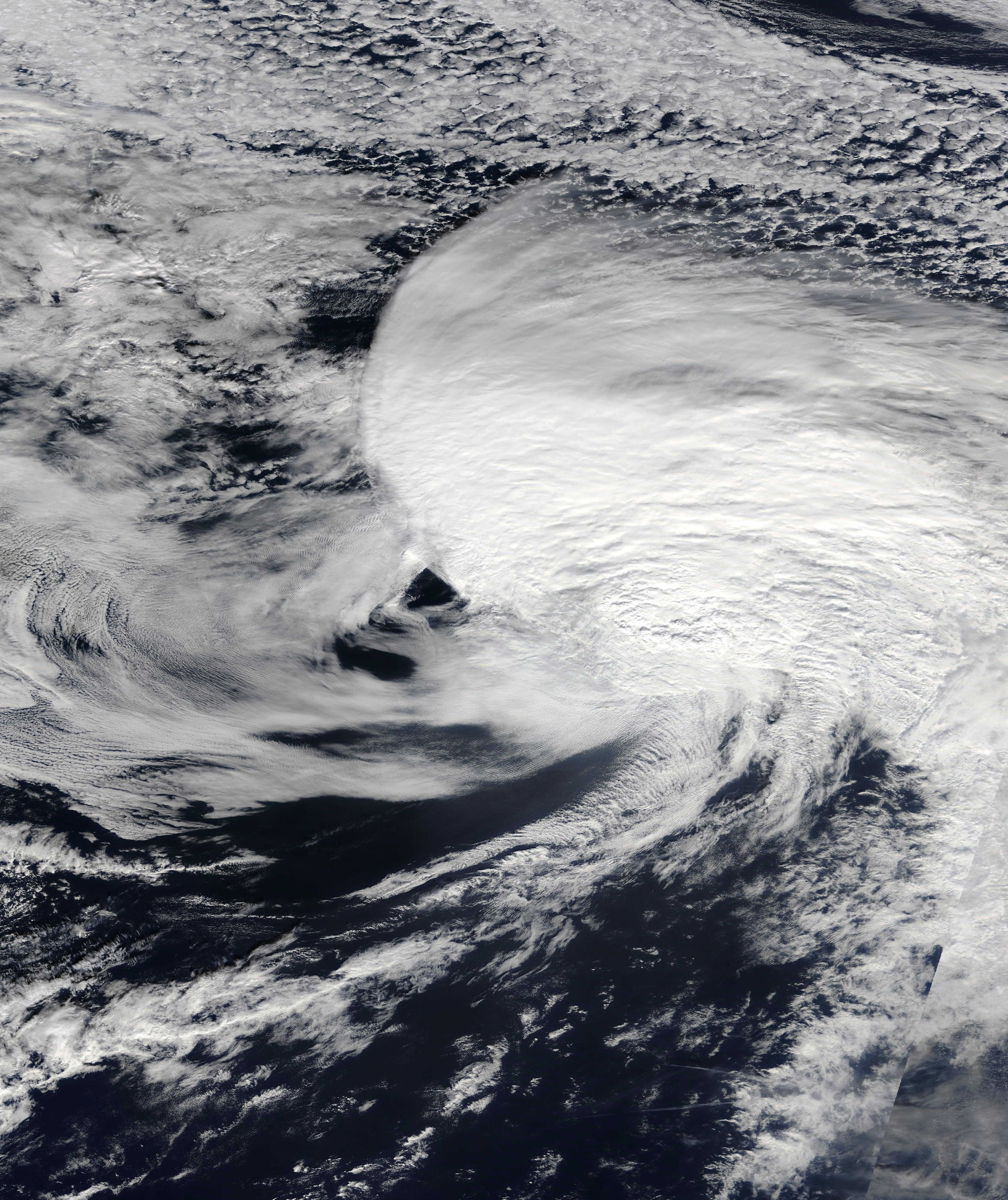 Post-Tropical Cyclone Michael on October 13, 2018